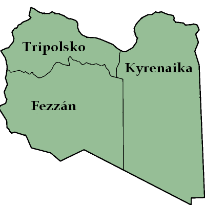 Map of the three Governorates of Libya. After independence in 1951, until 1963, Libya was divided into three governorates (muhafazat): Cyrenaica, Tripolitania, and Fezzan.